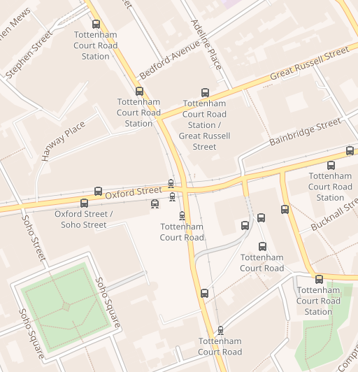 Map from of St Giles Circus as of December 2016 at zoom level 17. OpenStreetMap cut-out (or derivative work based on it): without further description This cut-out may be incomplete, and may contain errors, or may be obsolete. Don't rely solely on it for navigation. Seek for the present state in original context on the OpenStreetMap wiki page